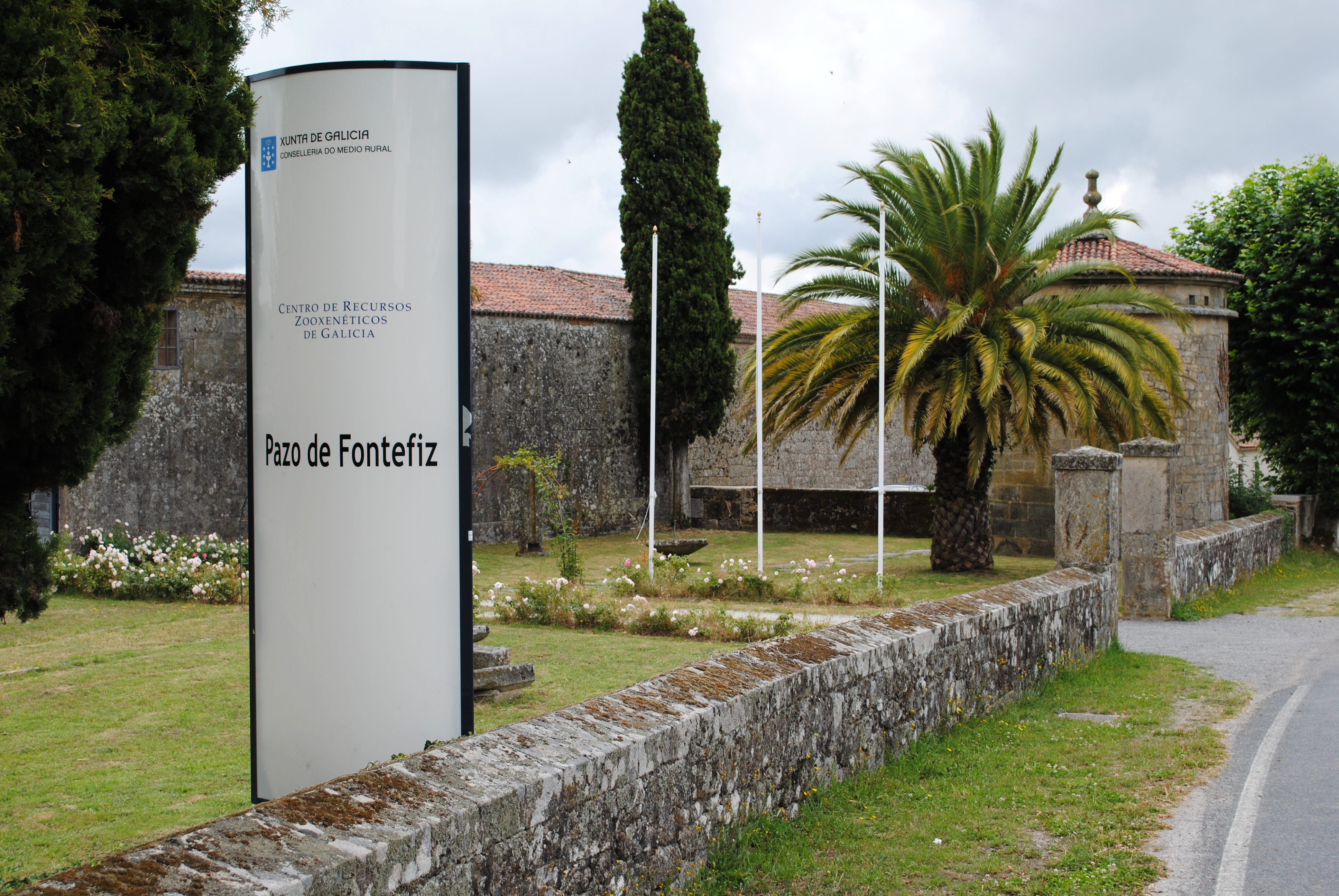 See title.